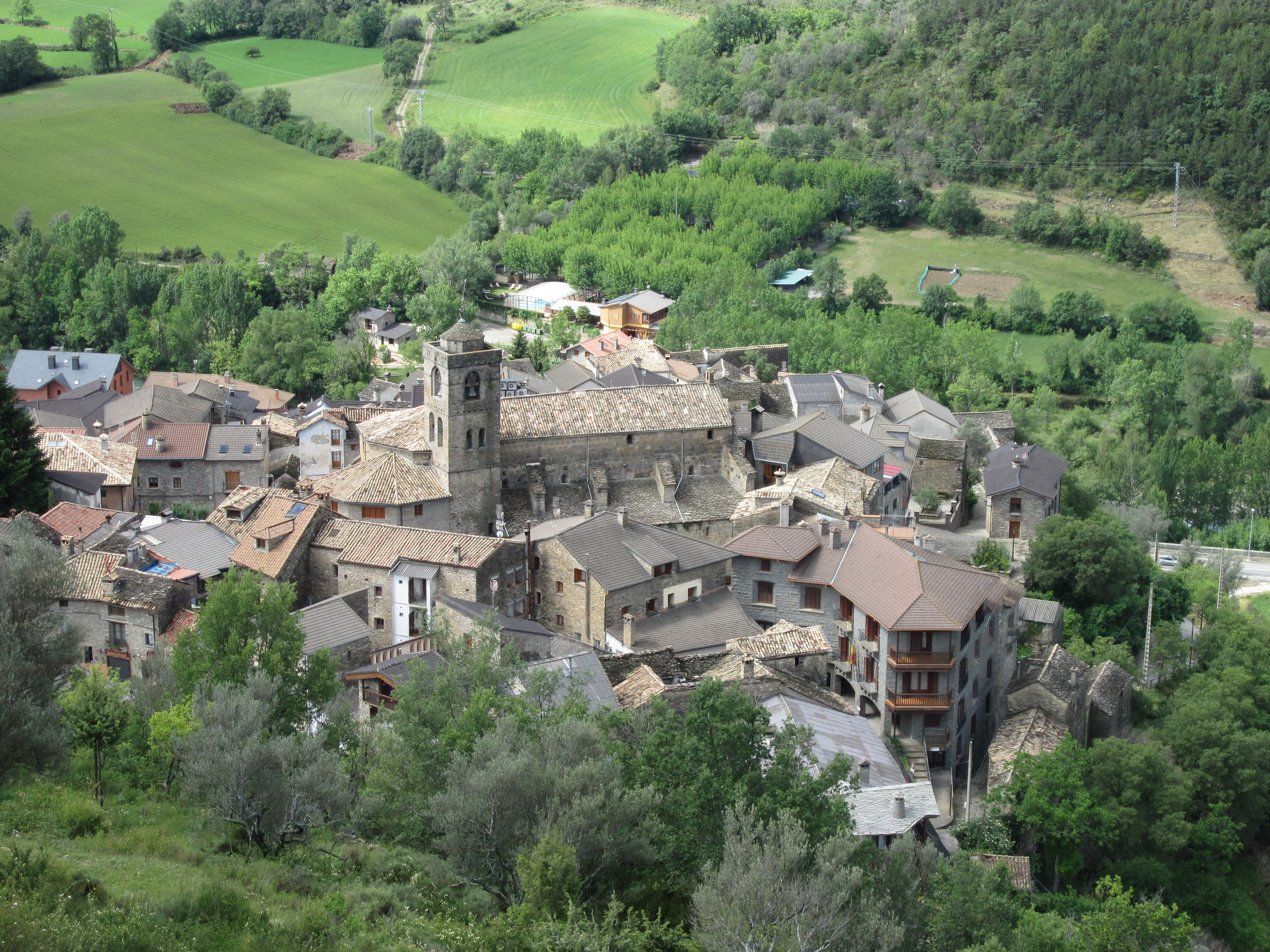 Boltaña from the path from the village to the castle.